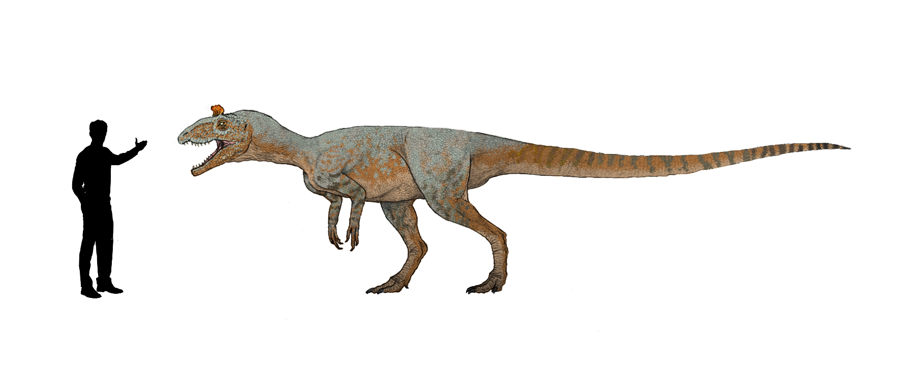 a scale restoration